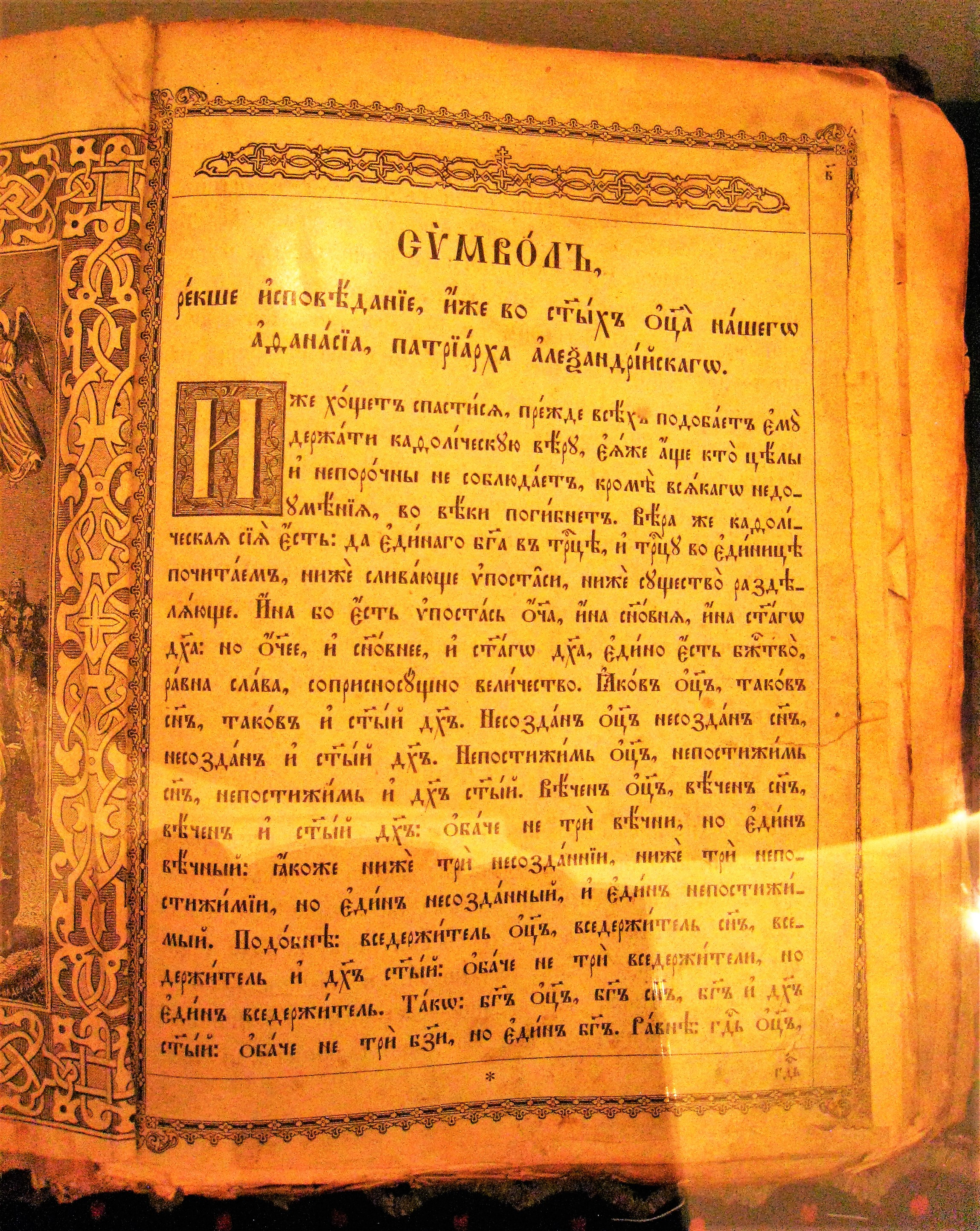 An old book in Church Slavic with the Athanasian Symbol. Černihiv, Museum.